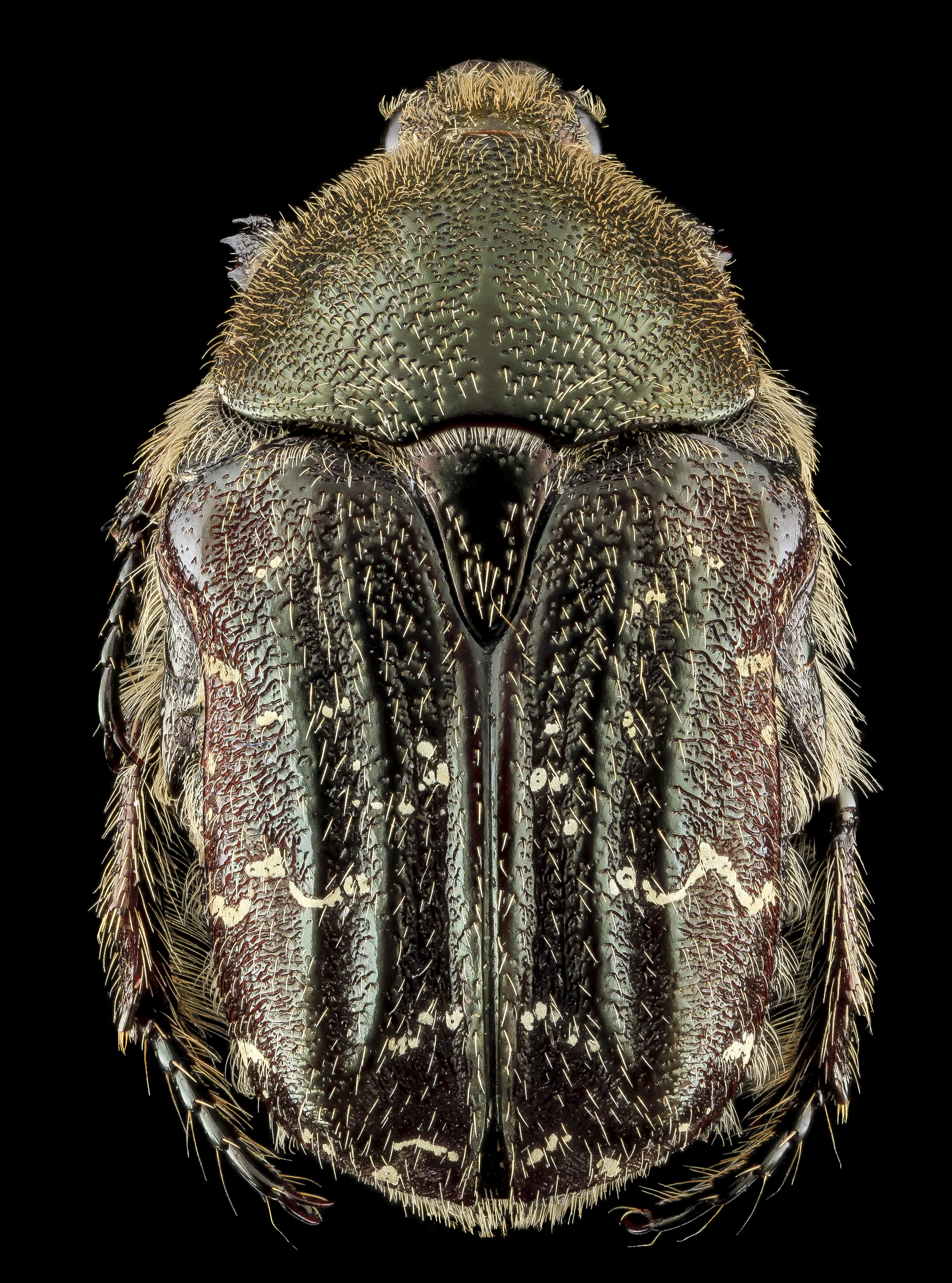 Dark Flower Scarab (Euphoria sepulcralis) collected in Wicomico County in a glycol trap on a farm by Brooke Alexander and photoshopped by wonderful interns Joyce and Amber